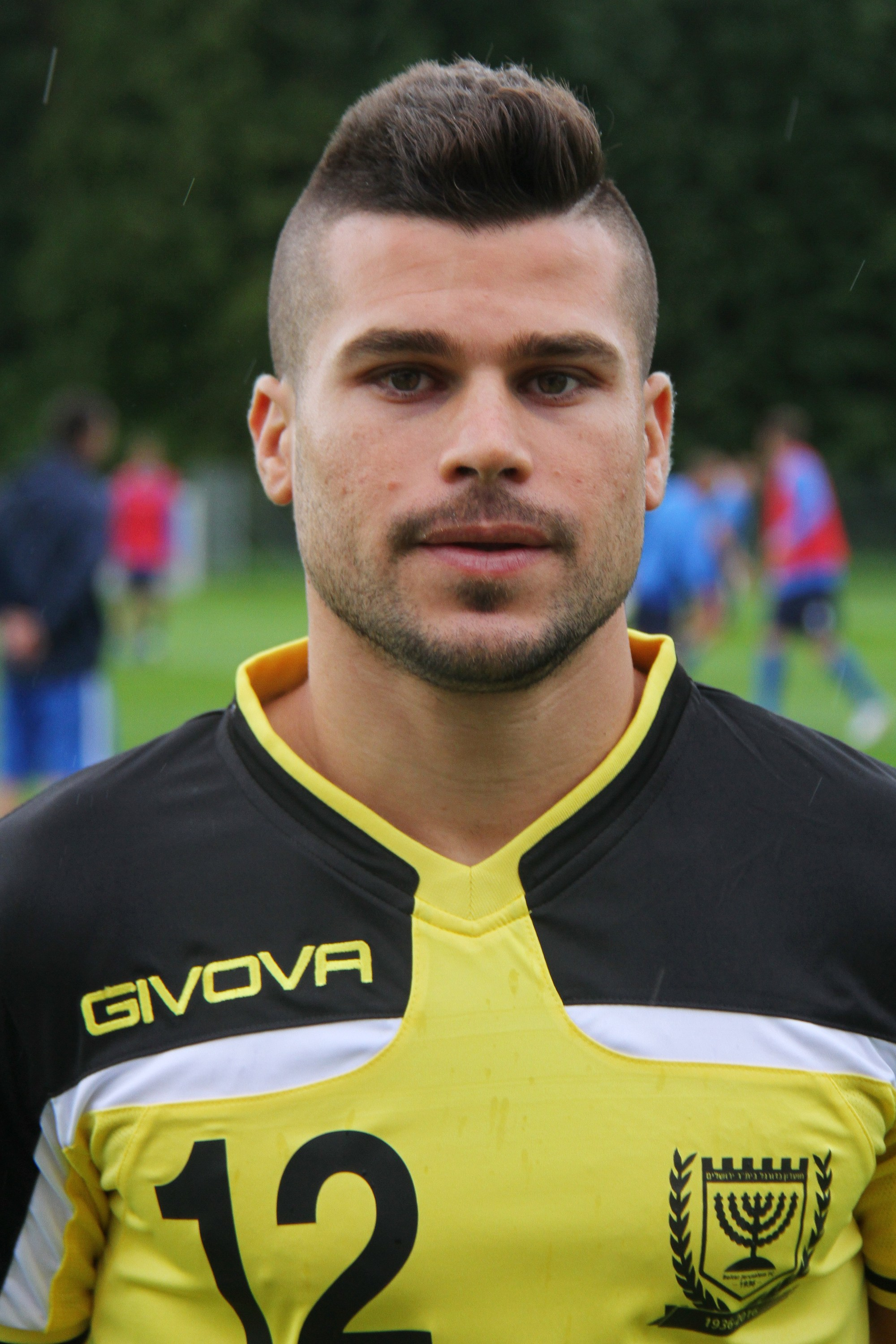 Friendly match between Beitar Jerusalem F.C. (yellow shirts) and MTK Budapest FC (blue shirts) at 2016-06-18 in Bad Erlach (Austria. – The photo shows Kobi Moyal of Beitar Jerusalem F.C.